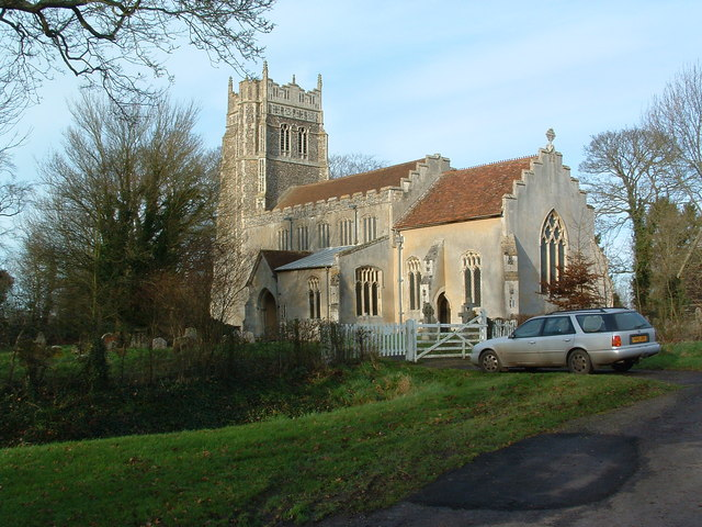 Church of St Mary in Little Stonham, Suffolk, England. A Grade I listed medieval church.